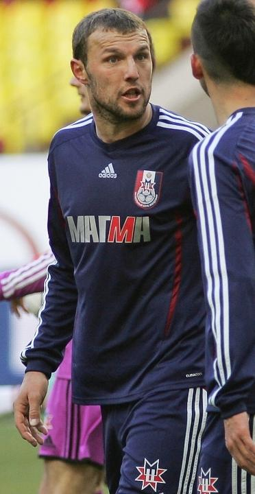 Yevgeni Osipov playing for FC Mordovia Saransk.